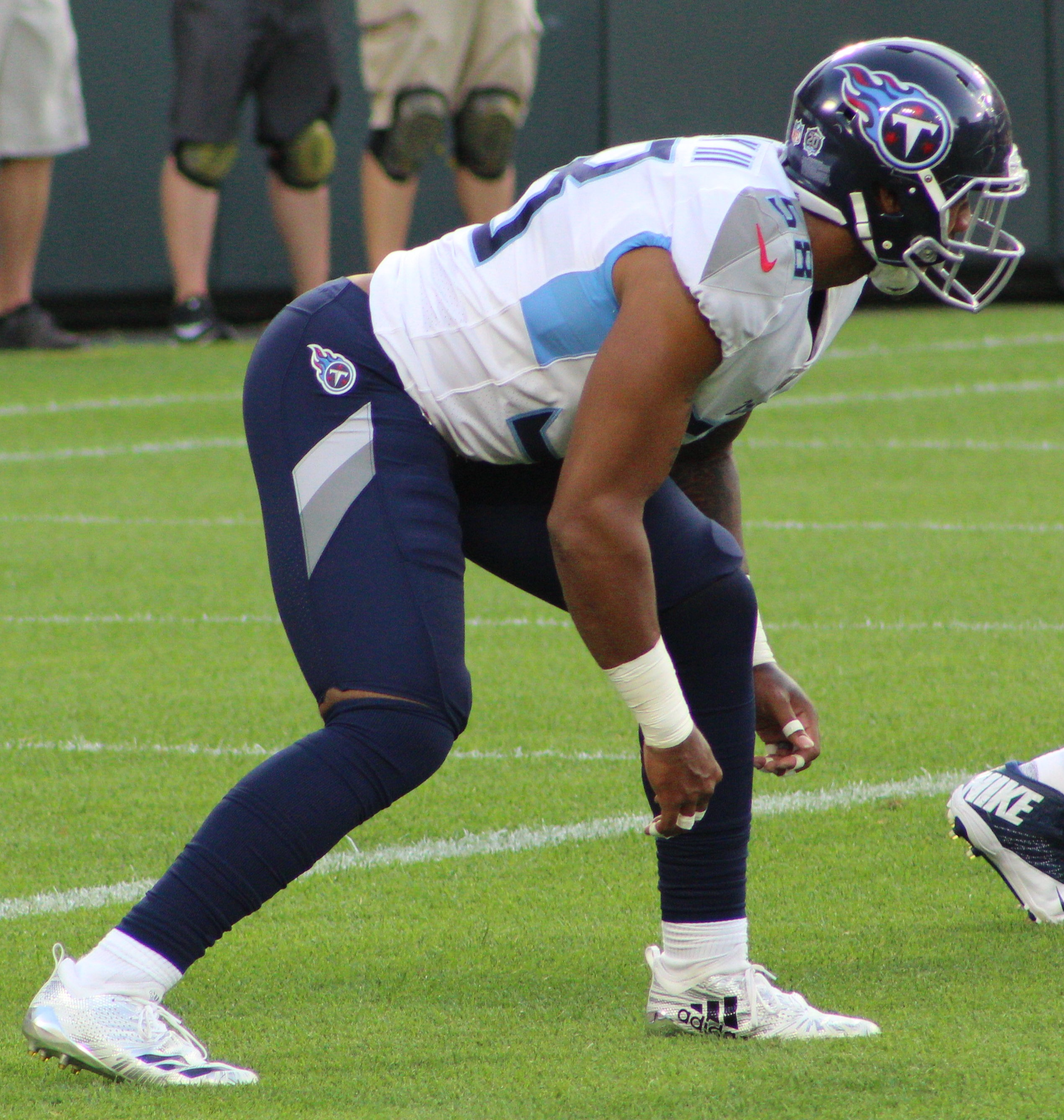 Harold Landry III, Tennessee Titans at Green Bay Packers (Preseason), August 9, 2018